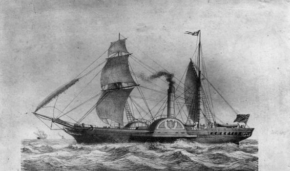 SS Sirius, circa 1838: The Cork Steam Ship Company's 700 ton, 320-horsepower 'Sirius' built in 1837. She crossed from Cork to New York in April 1838. She has paddle, steam and sails.